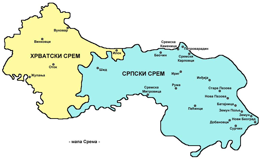 Map of Syrmia region - Serbian language version. Serbian: Мапа Срема - верзија на српском језику. References References for historical/geographical borders of Syrmia and modern state borders: Školski istorijski atlas, Zavod za izdavanje udžbenika Socijalističke Republike Srbije, Beograd, 1970. Milovan Radovanović, Kosovo i Metohija - antropogeografske, istorijskogeografske, demografske i geopolitičke osnove, Beograd, 2008. Slobodan Radovanović, Geografski atlas, Magic Map, Smederevska Palanka, 2001. Školski geografski atlas, Intersistem Kartografija, Beograd, 2004. Denis Šehić - Demir Šehić, Geografski atlas Srbije, Beograd, 2007. References for sizable cities and towns: Popis stanovništva, domaćinstava i stanova u 2002., Stanovništvo, nacionalna ili etnička pripadnost - Podaci po naseljima, knjiga 1, Republika Srbija - Republički zavod za statistiku, Beograd, februar 2003.